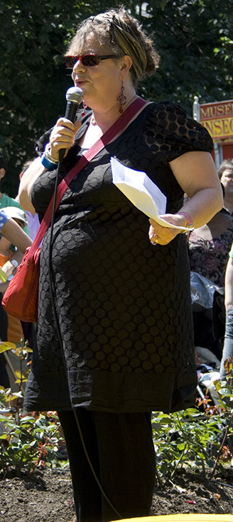 Image of Jo Brand